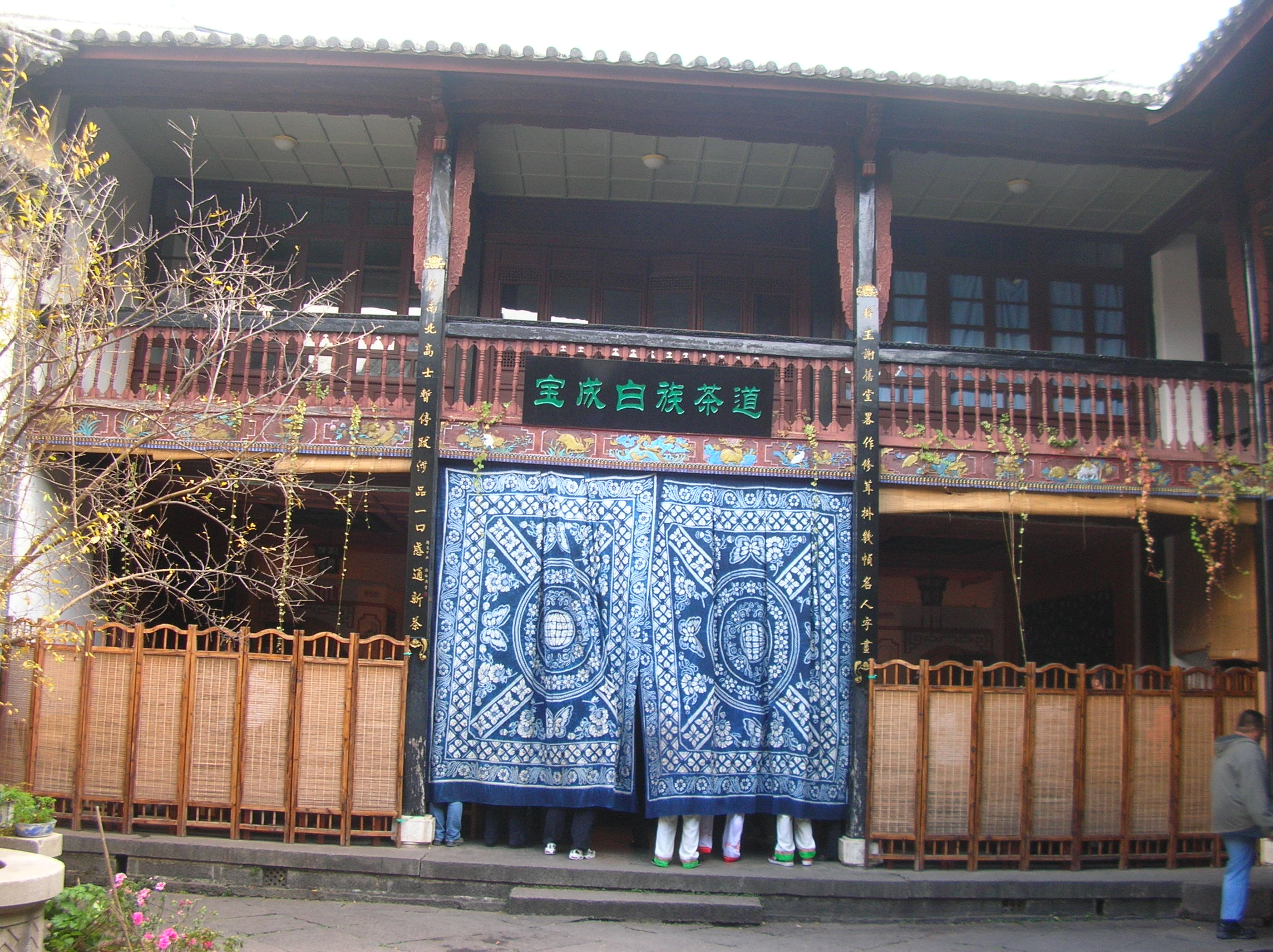 The Bai peopleBai tea serving ceremonial ground in Dali Bai Autonomous Prefecture. Taken by Tdxiang. Summary The Bai tea serving ceremonial ground in Dali Bai Autonomous Prefecture. Taken by Tdxiang.